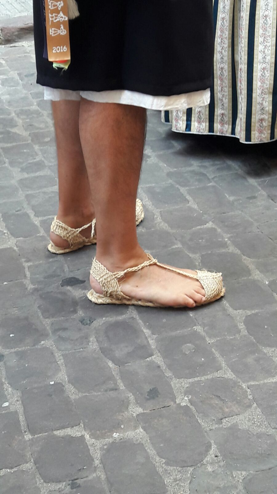 Mare de Déu de la Salut. La Mare de Déu de la Salut Festival is celebrated in September 8, in Alegemesi, Spain and commemorates the legendary discovery in 1247 of a statue depicting the Madonna and Child. Picture shows a Traditional Valencian espadrille of llaurador dancer at La Mare de Déu de la Salut Festival celebrated in Algemesí